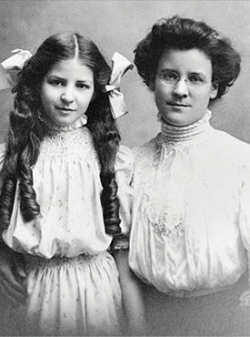 Another photo of Briggs and Briggs-Myers.